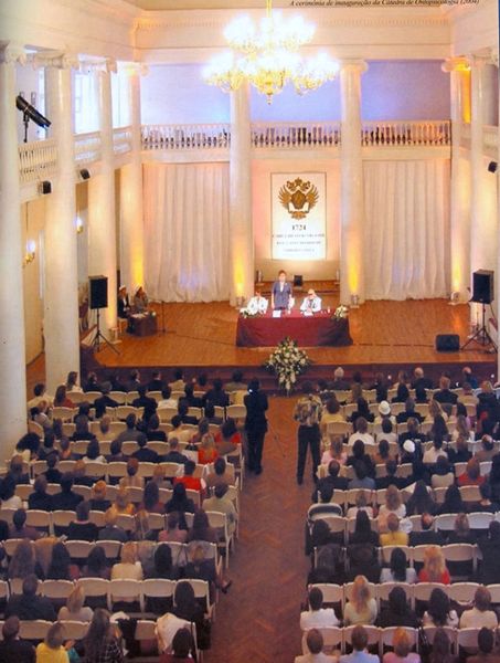 Official Opening of the Ontopsychology Chair at the Saint-Petersburg State University